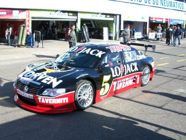 Volkswagen Passat de Top Race V6. Piloto: Marcos Di Palma